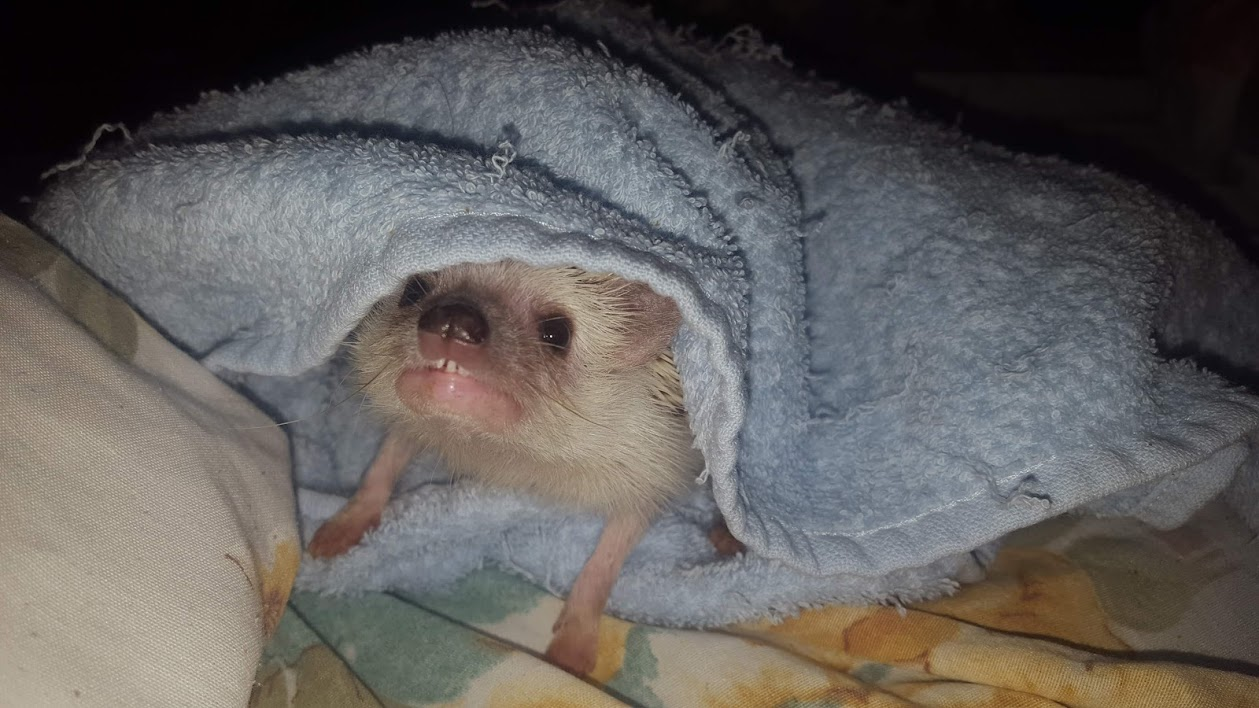 Hedgehog after bath